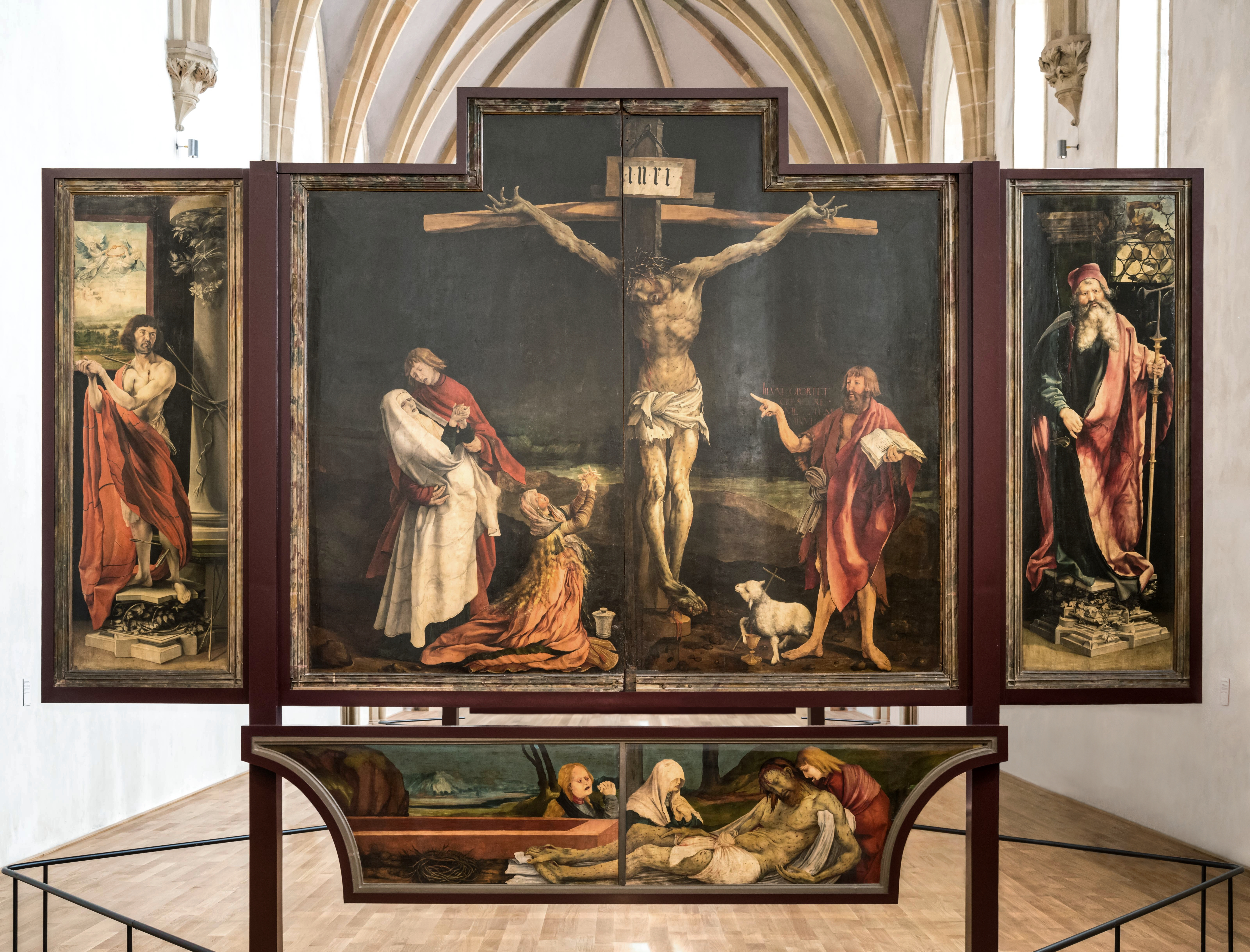 Isenheim Altarpiece in Unterlinden Museum in Colmar (Haut-Rhin, France).